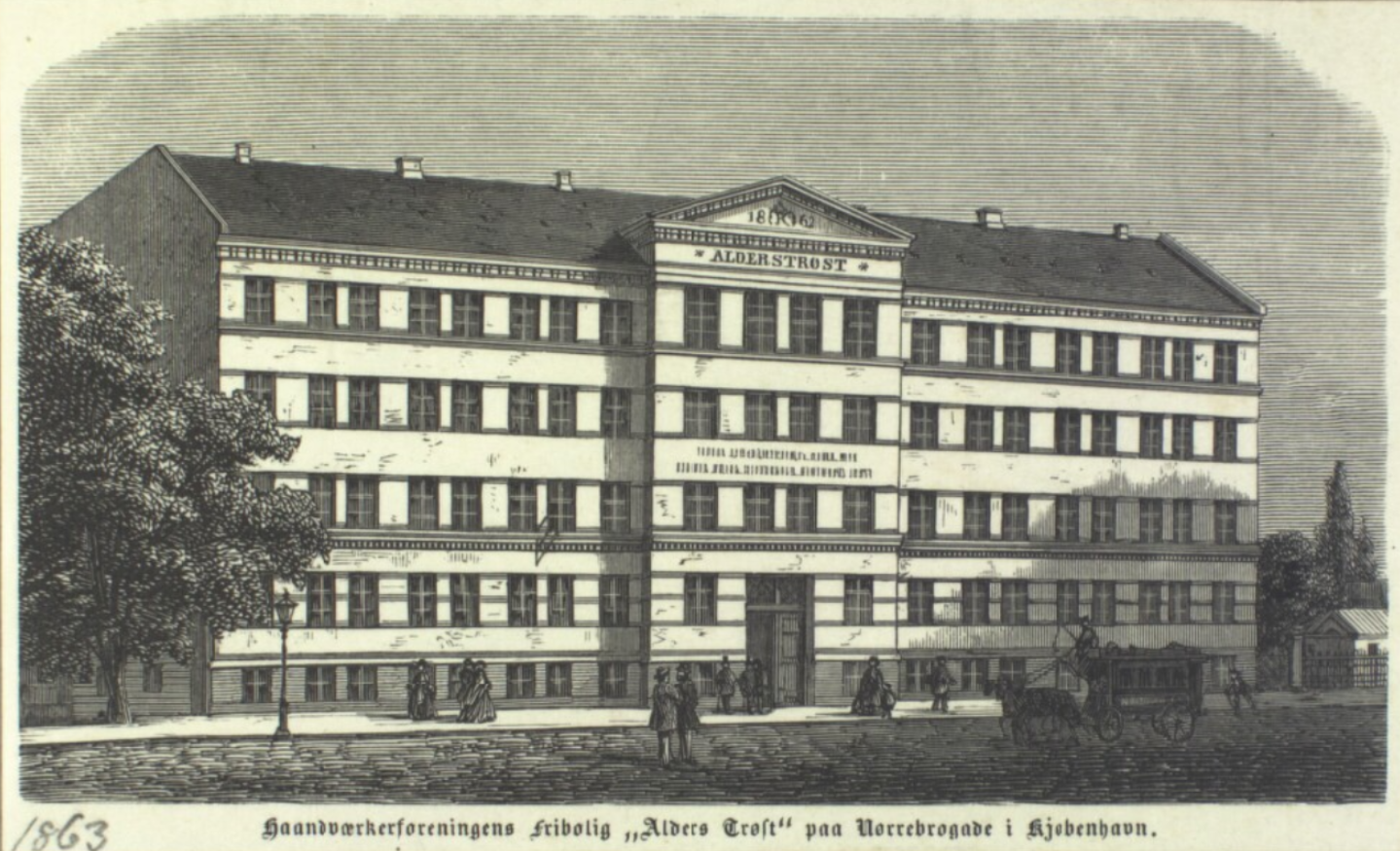 Nørrebrogade, Håndværkerforeningen fribolig Alderstrøst på nørrebrogade i København